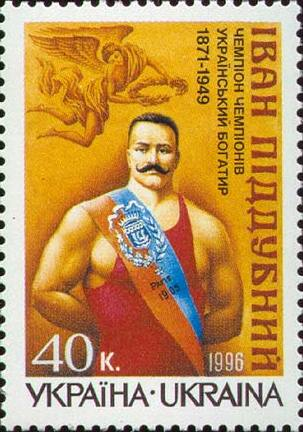 Stamp of Ukraine